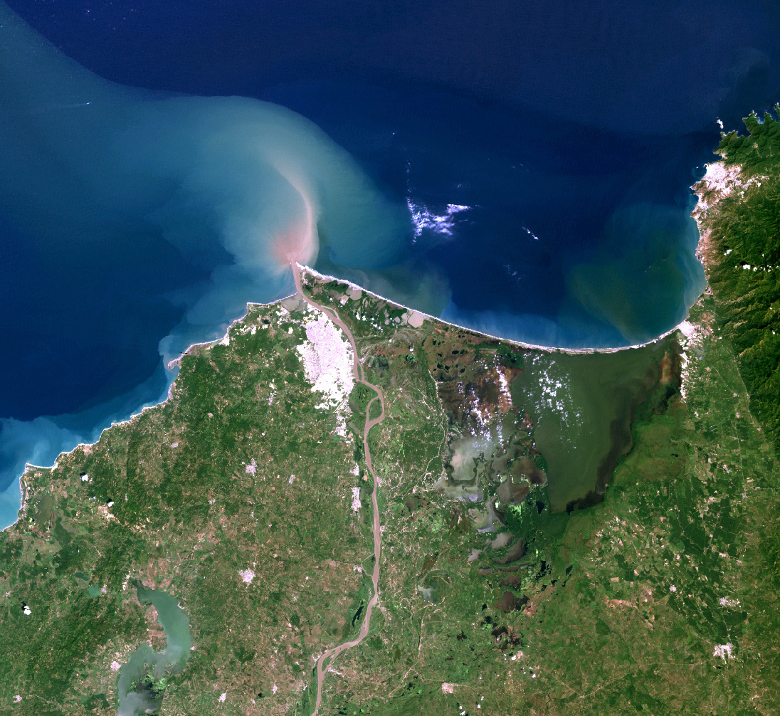 Landsat7 image of the Magdalena River delta.